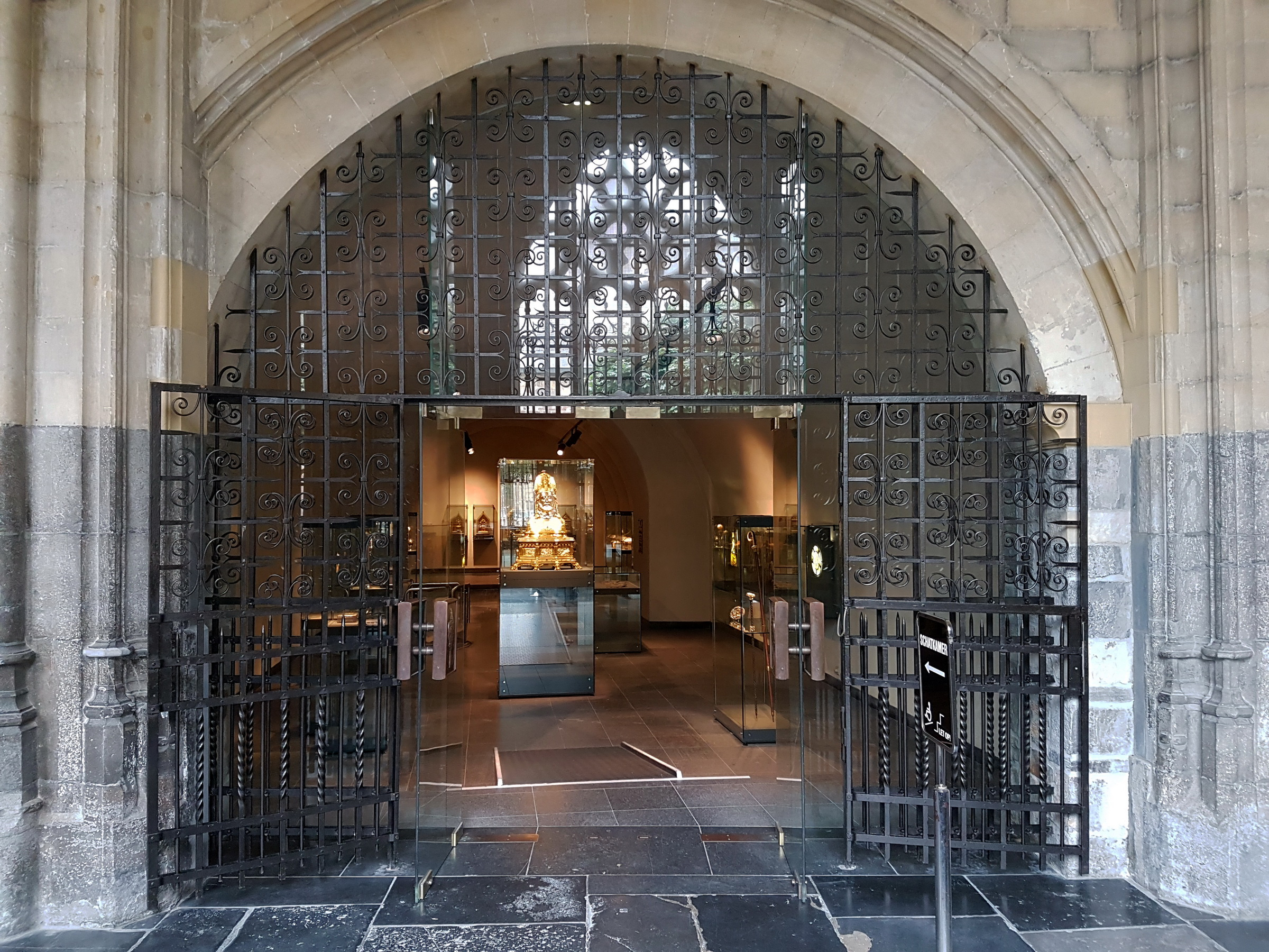 Entrance to the Treasury in the east corridor of the cloisters of the Basilica of Saint Servatius in Maastricht, the Netherlands.